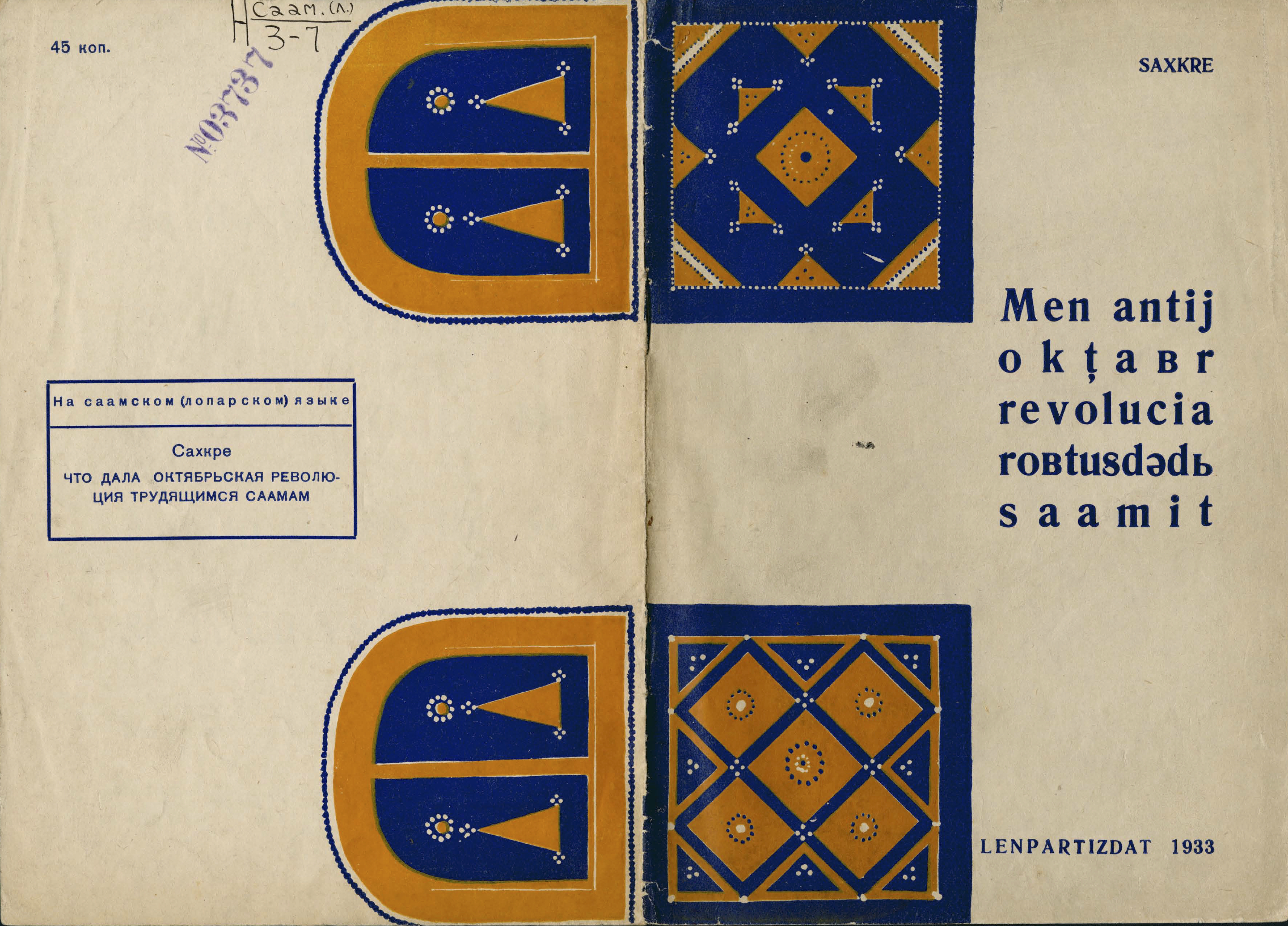 Cover of a 1933 book in Kildin Saami